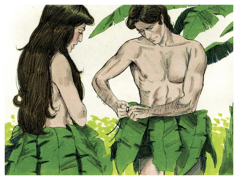 Biblical illustration of Book of Genesis Chapter 3